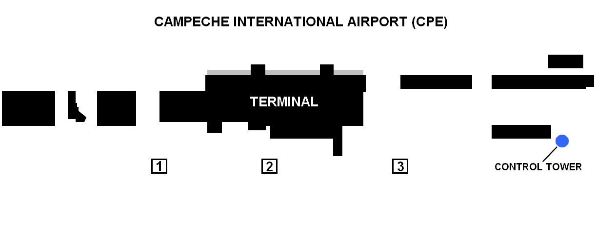 Campeche International Airport terminal